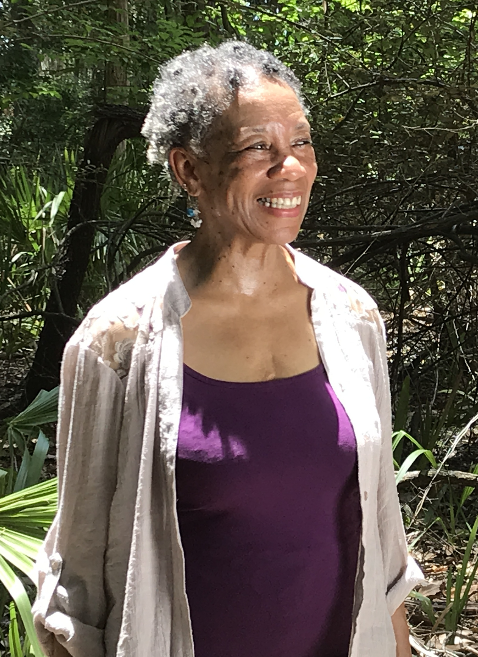 Behind the scenes image of Suzanne Jackson during photo shoot at Wormsloe GA